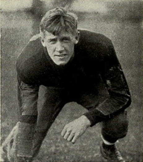 Photograph of Bill Orwig This work is in the public domain because it was published in the United States between 1925 and 1963 and although there may or may not have been a copyright notice, the copyright was not renewed. Unless its author has been dead for the required period, it is copyrighted in the countries or areas that do not apply the rule of the shorter term for US works, such as Canada (50 pma), Mainland China (50 pma, not Hong Kong or Macao), Germany (70 pma), Mexico (100 pma), Switzerland (70 pma), and other countries with individual treaties. See Commons:Hirtle chart for further explanation. This work is in the public domain in the United States because it was published in the United States between 1925 and 1977, inclusive, without a copyright notice. See Commons:Hirtle chart for further explanation. Note that it may still be copyrighted in jurisdictions that do not apply the rule of the shorter term for US works (depending on the date of the author's death), such as Canada (50 p.m.a.), Mainland China (50 p.m.a., not Hong Kong or Macao), Germany (70 p.m.a.), Mexico (100 p.m.a.), Switzerland (70 p.m.a.), and other countries with individual treaties.